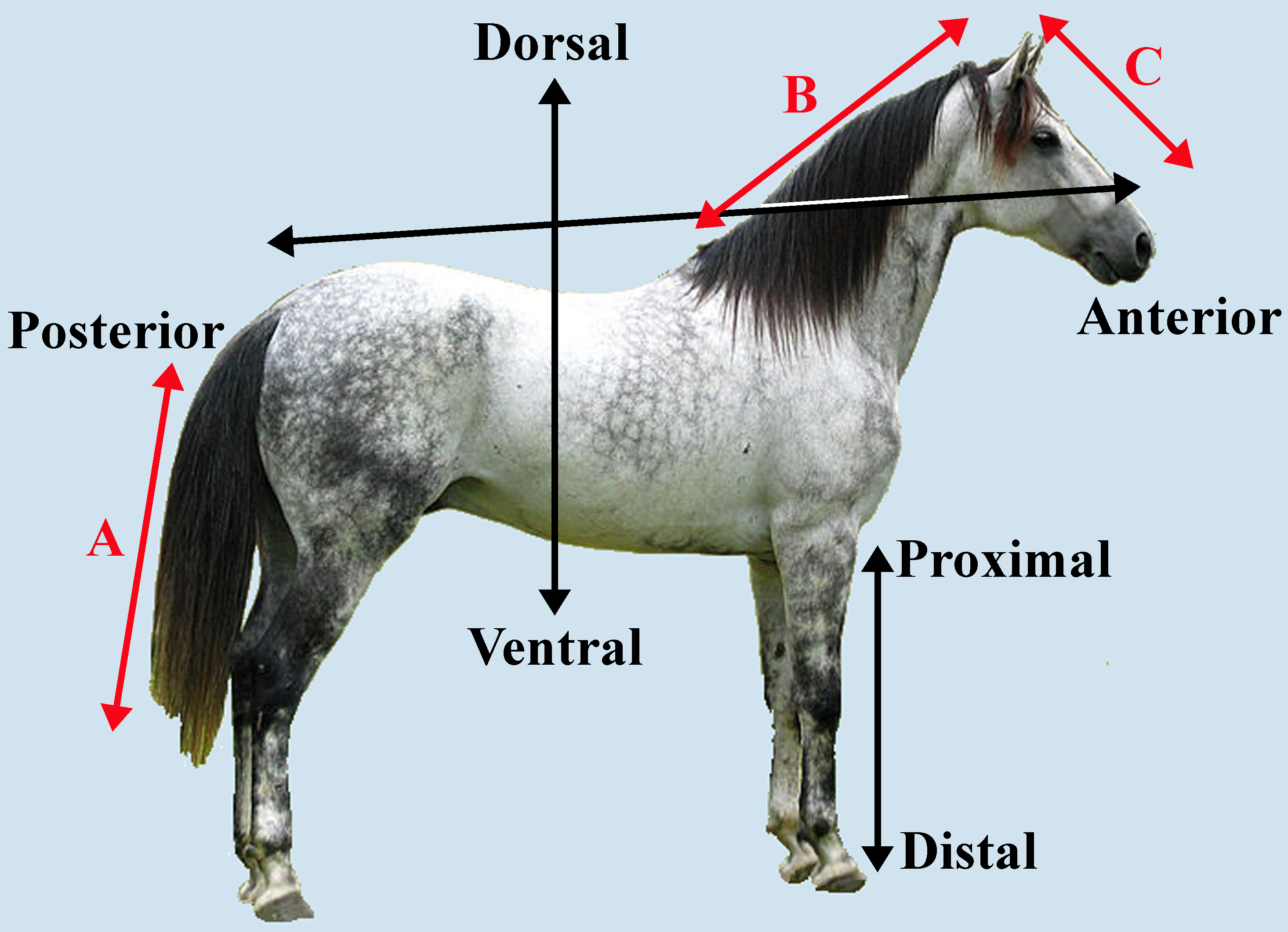 Directional axes in a tetrapod.